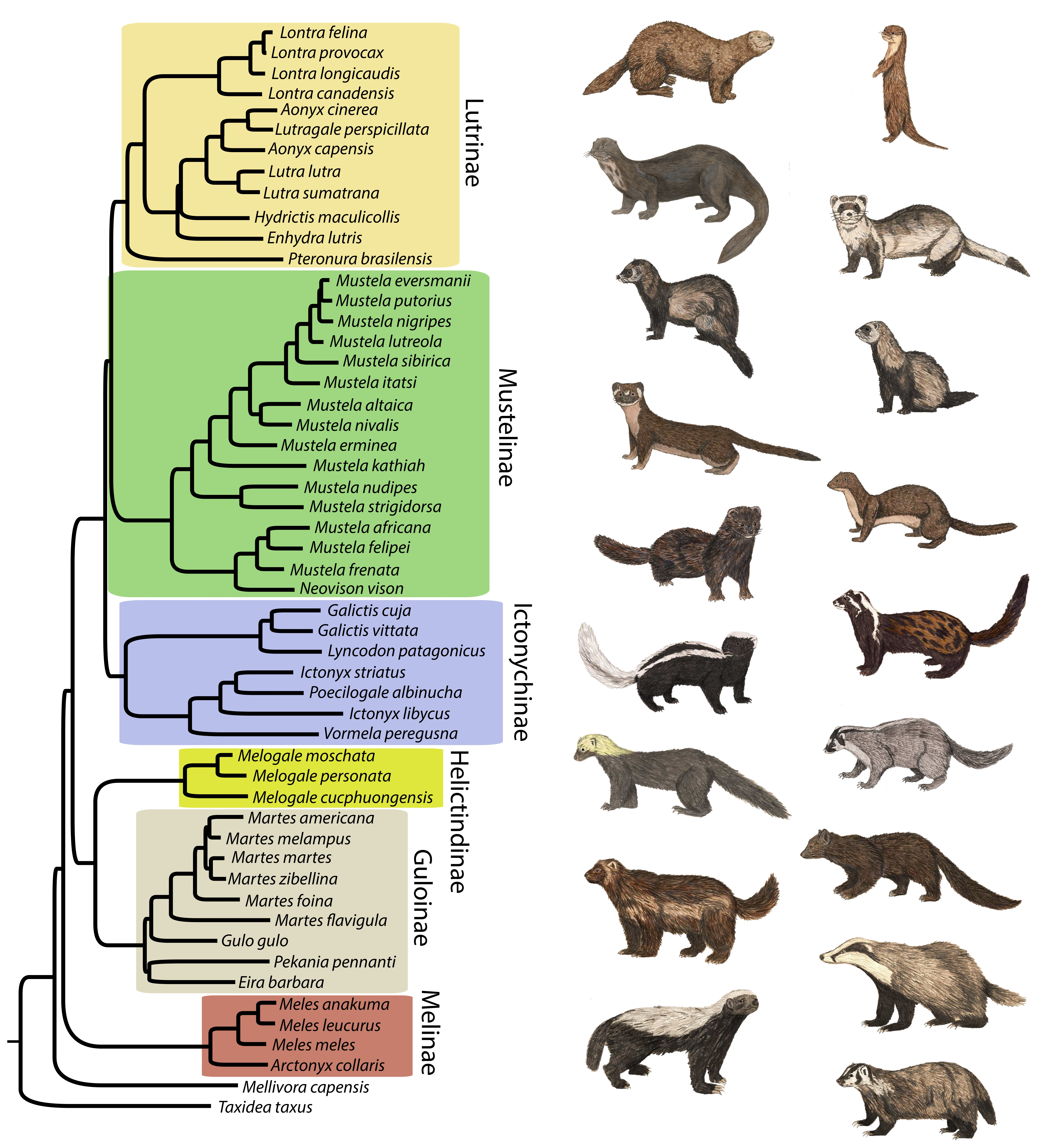 Mustelidae Phylogenetic Tree